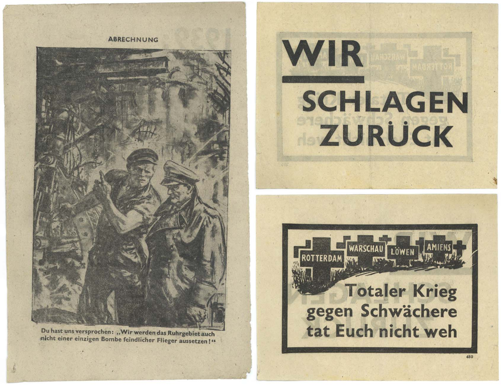 When the Second World War broke out in 1939, the New Zealand Government offered Royal New Zealand Airforce aircrew training in England to the Royal Air Force (RAF). The British Air Ministry gave them the defunct No.75 Squadron numberplate on 4 April 1940, which meant that the nucleus of this New Zealand squadron remained together as an operational unit within the RAF. They were renamed No.75 (NZ) Squadron, and saw constant action in Europe from 1940 until VE Day. The squadron flew more sorties than any other Allied heavy bomber squadron, suffered the second most casualties, and dropped the second largest weight of bombs. On 23 September 1940, No.75 (NZ) Squadron took part in the first 100-plus bomber raid on Berlin. The night raid caused minimal damage, but highlighted the increasing size of Allied attacks on Berlin - a city at the extreme range attainable by British bombers. However, as well as dropping bombs, the Squadron also dropped 'mental dynamite' in the form of propaganda pamphlets. "Leaflets in many forms and languages were distributed throughout the war," notes the Squadron's history. These were designed to "raise the moral of the peoples of occupied lands and lower the moral of the Nazis." The leaflets above are just some of the many dropped by No.75 Squadron between September 1940 and August 1941 (there are more in the file at Archives New Zealand: In the flyer on the left (titled 'Revenge'), Hermann Goring is accused of making the false promise that not a single bomb would drop on the Ruhr; while the flyer on the right implies that Germany has met its match in Great Britain. Archives Reference: AIR167 Box 2/ 6 For updates on our On This Day series and news from Archives New Zealand, follow us on Twitter Material from Archives New Zealand